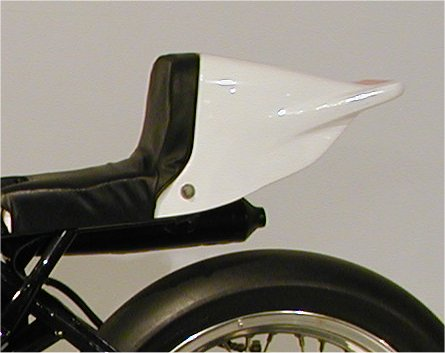 Barber Motorcycle Museum - Oct 22 2006 (147) 1979 Yamaha TZ750F More Description is here